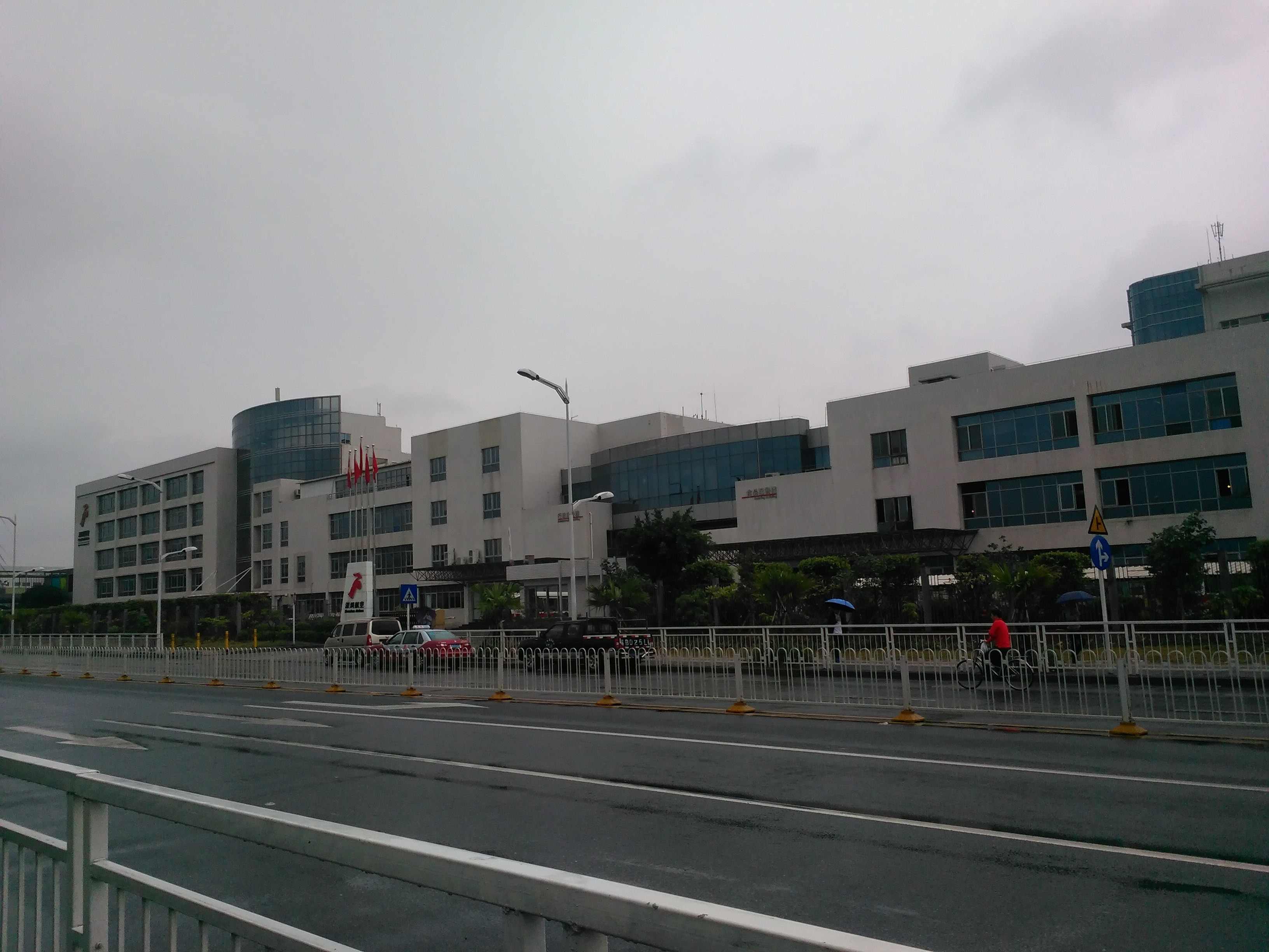 Shenzhen Airlines headquarters